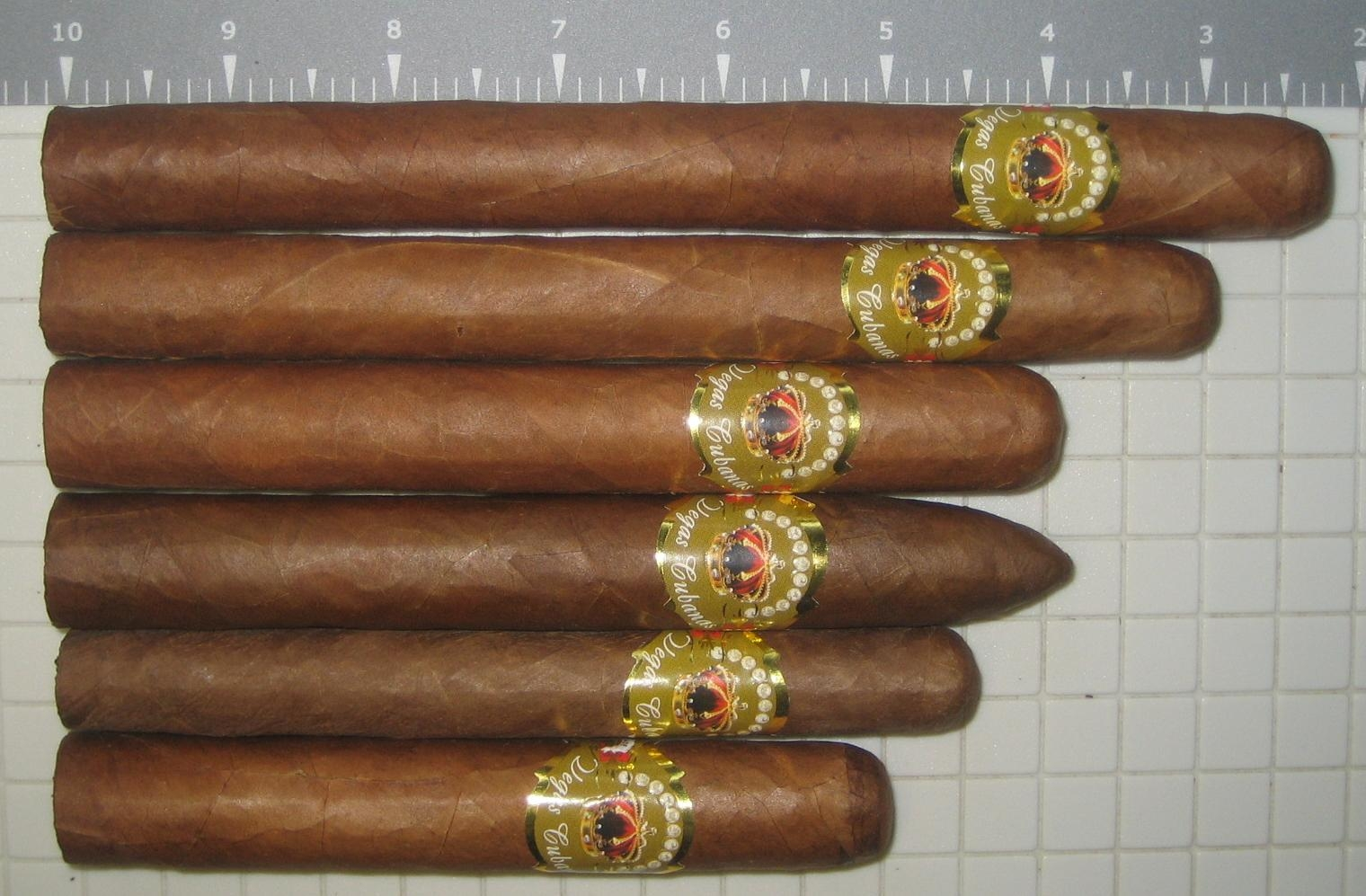 Don Pepin Garcia Vegas Cubanas